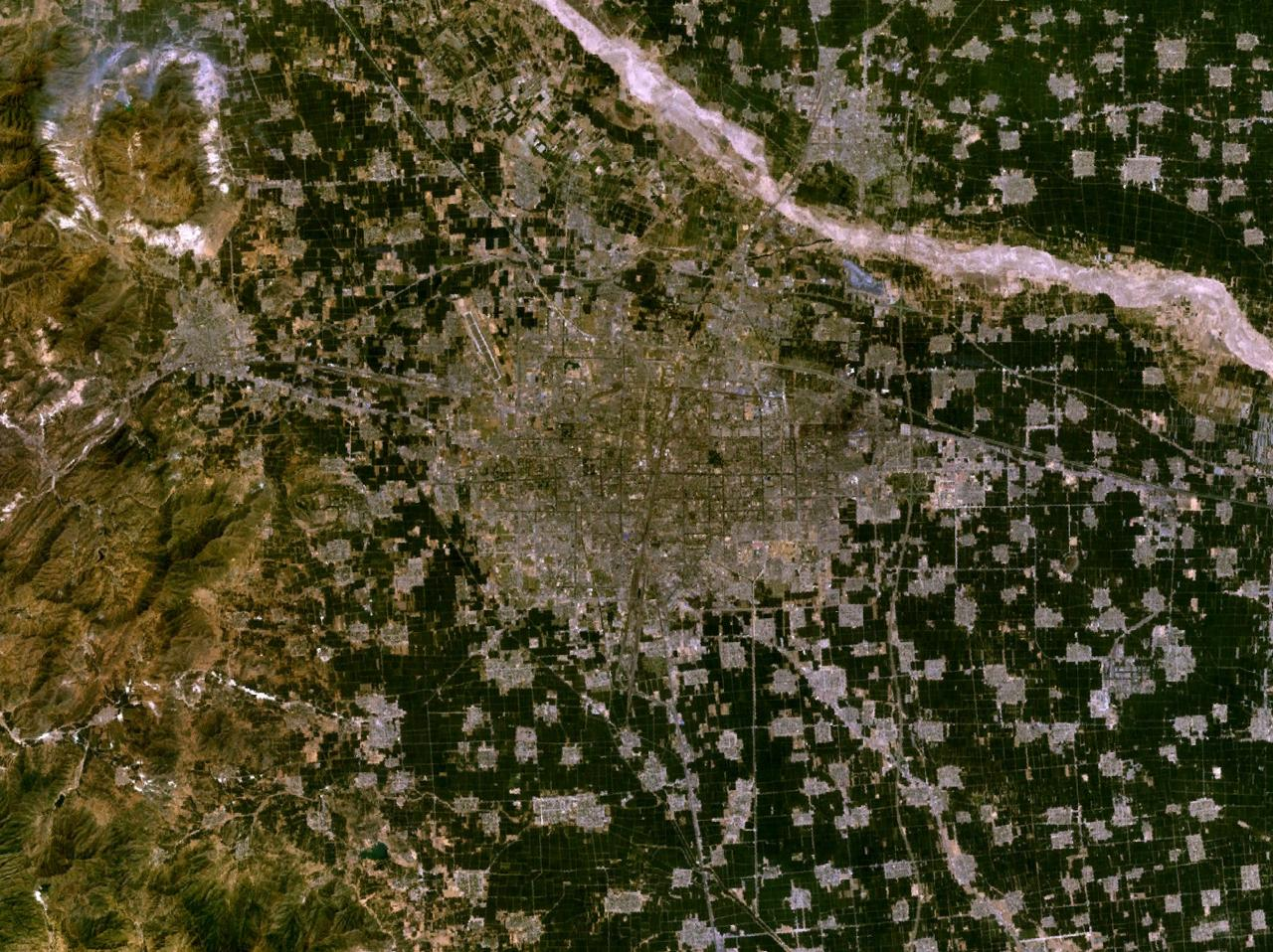 Shijiazhuang, China. Satellite view.